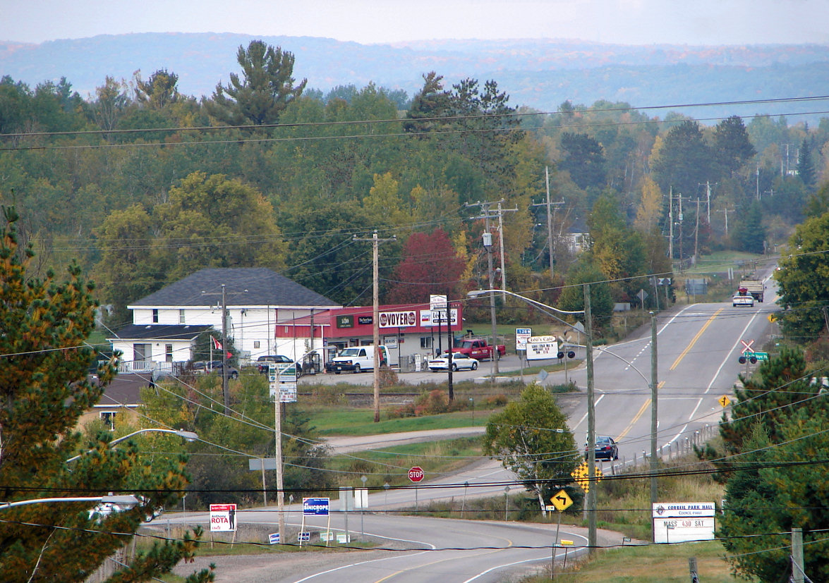 Corbeil, part of East Ferris municipality, Ontario. Seen is long-time business "Voyer's Red and White Store", owned by Mike Voyer. In the foreground is the sign for Corbeil Park Hall.